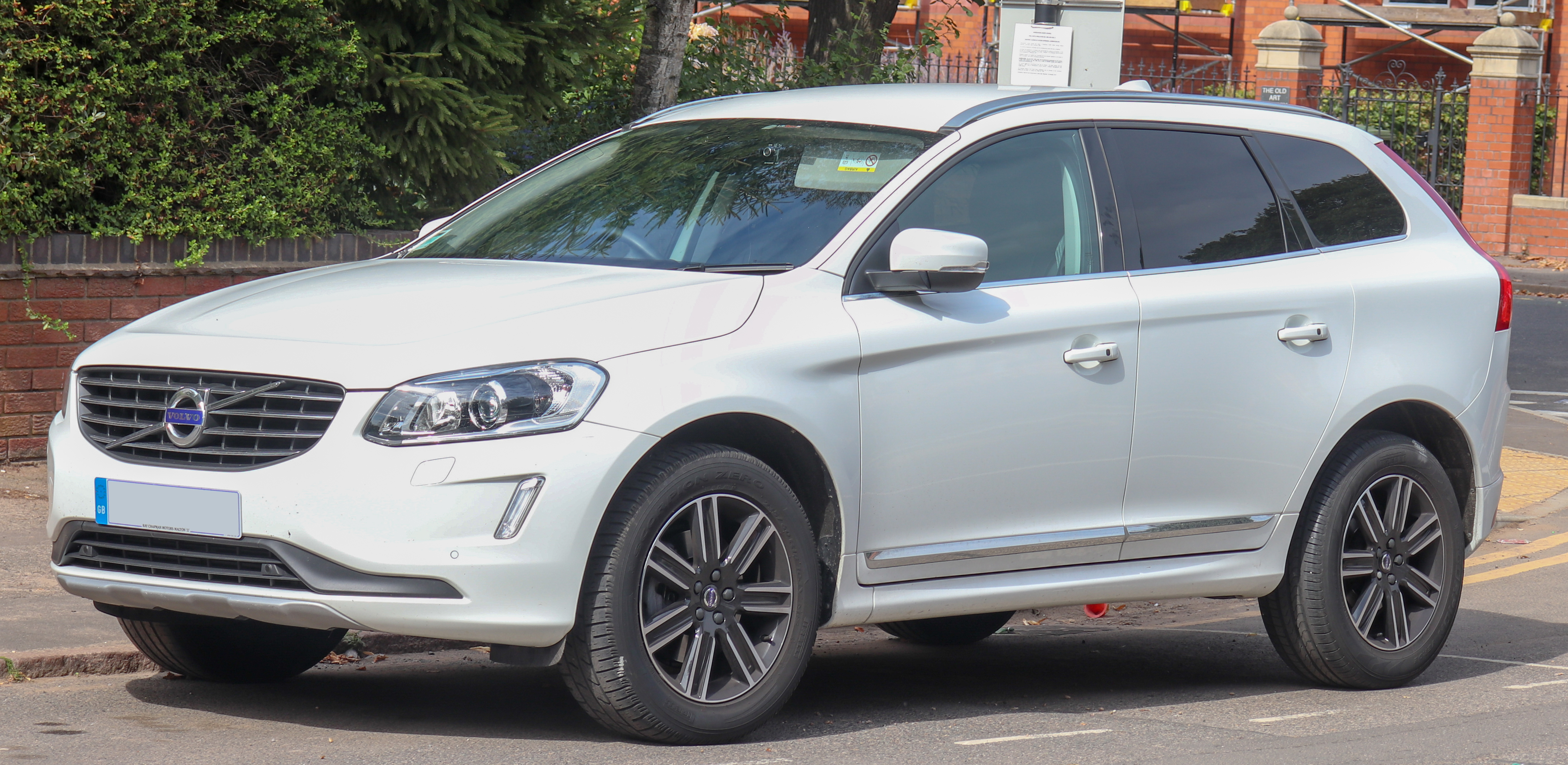 2016 Volvo XC60 SE Lux NAV D4 Automatic 2.0 Front Taken in Leamington Spa